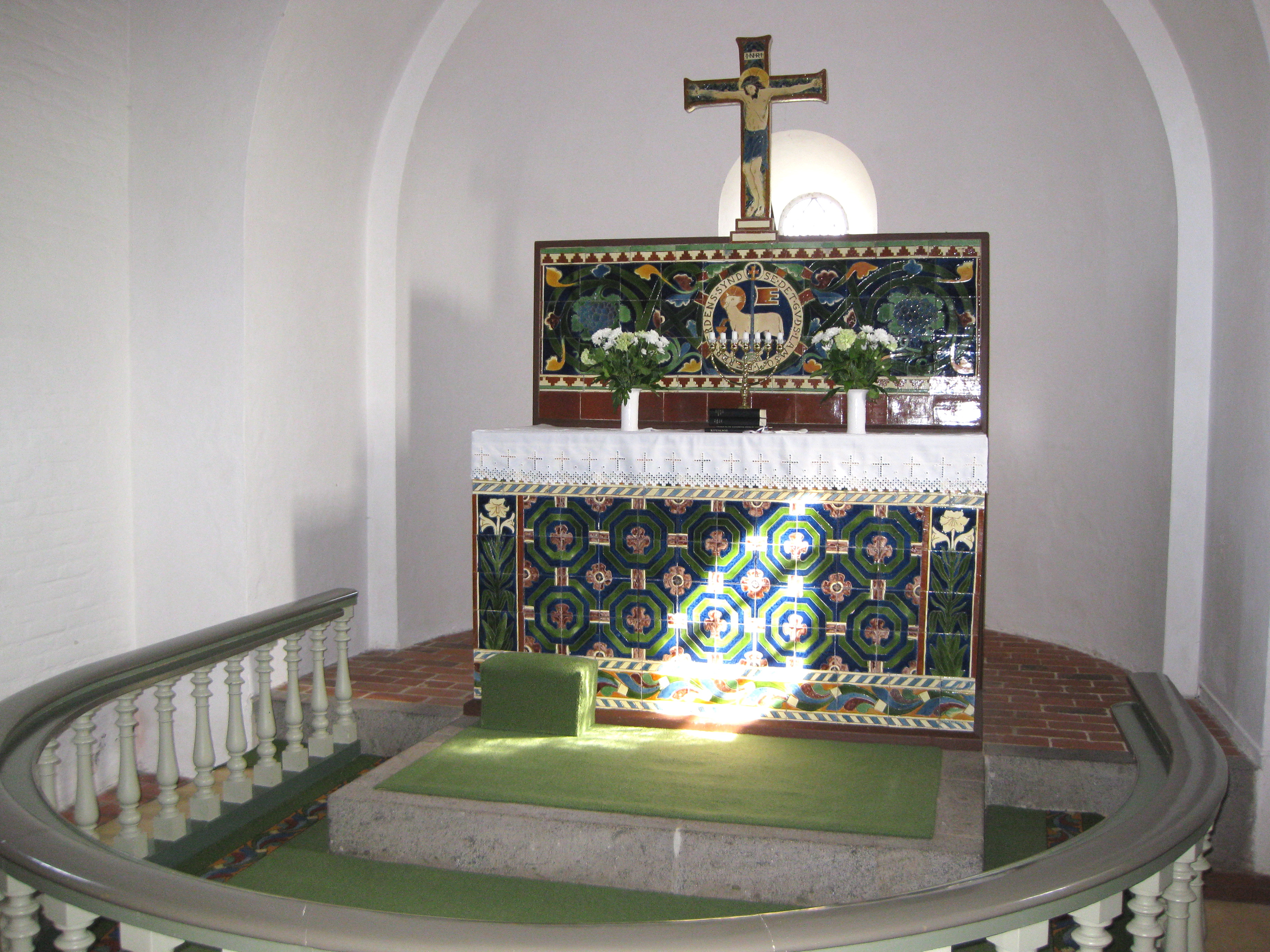 The church altar of "Skarp Salling Kirke" located near the small town "Løgstør" in North Jutland, Denmark.